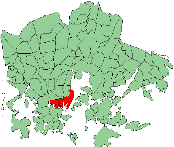 Districts of Helsinki, Kallio area highlighted (description in Finnish: Kallion peruspiirin kartta)